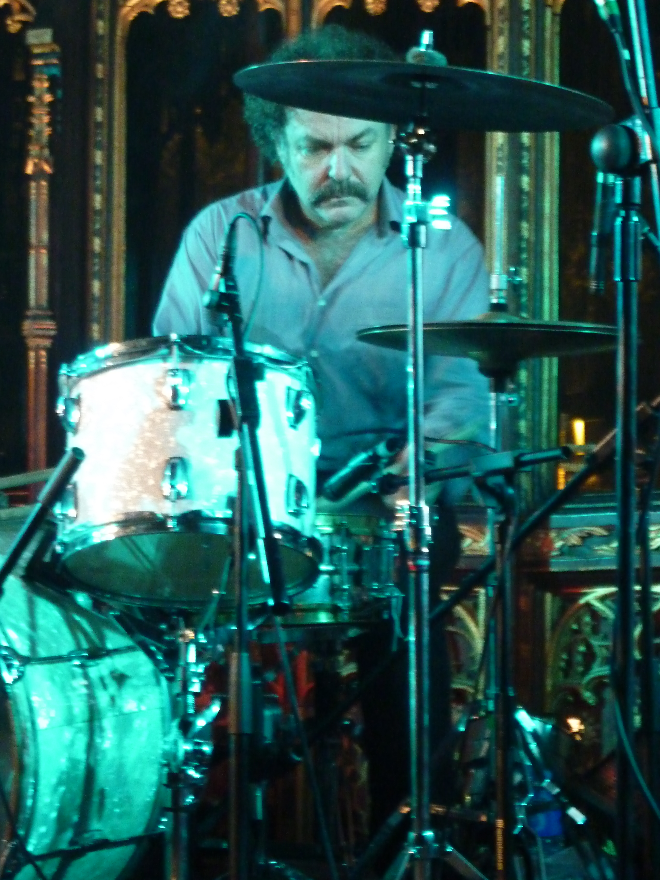 Jim White of the Dirty Three @ Manchester Cathedral 21 November 2012